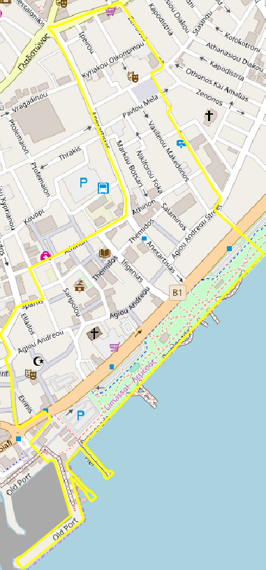 Map of Agia Napa.